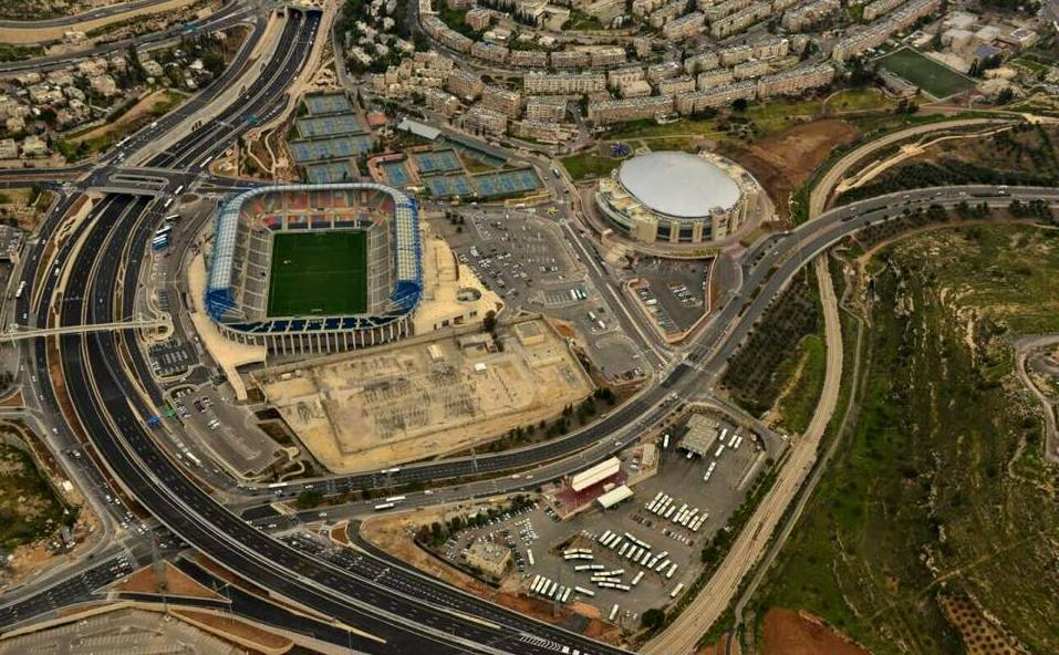 Jerusalem from the air, by the Israeli Police Airborne unit: Teddy Stadium and Malkha Arena, Jerusalem